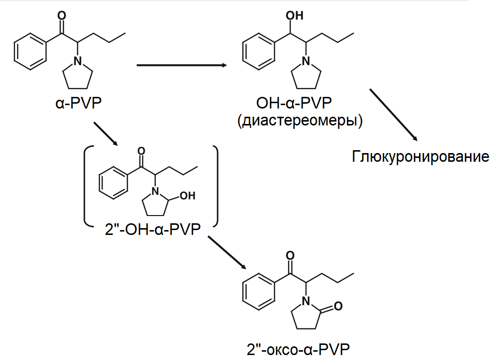 Metabolic pathways for α-PVP in humans.